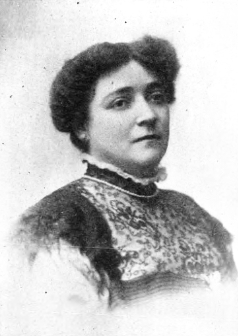 Portrait photograph of actress and swordswoman Ella Hattan